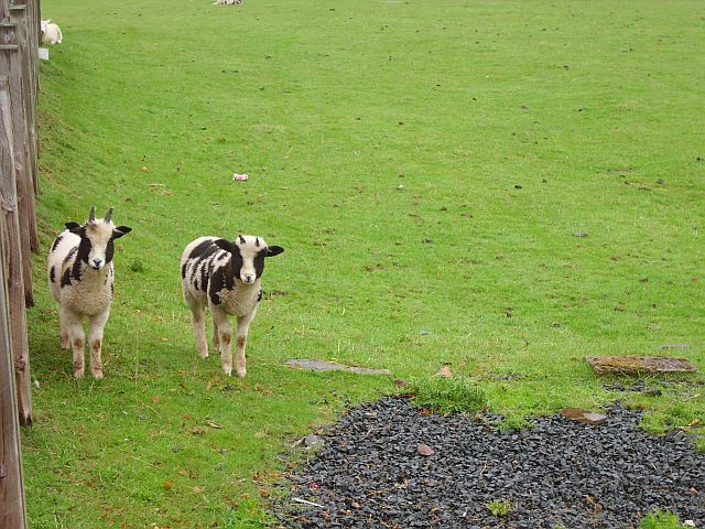 Lambs, Oxton. Jacob lambs.